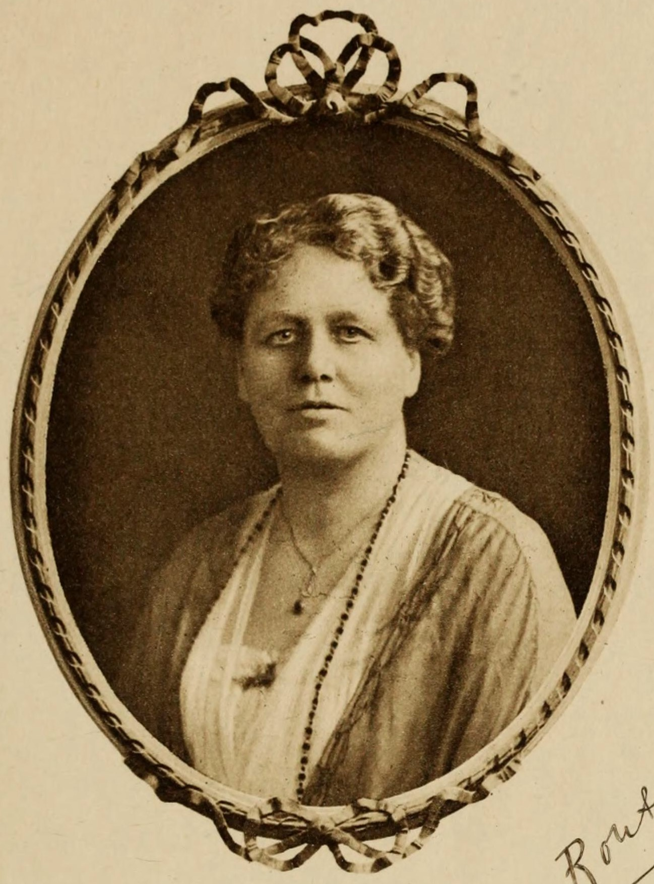 Katherine Maria Routledge, probably 1919